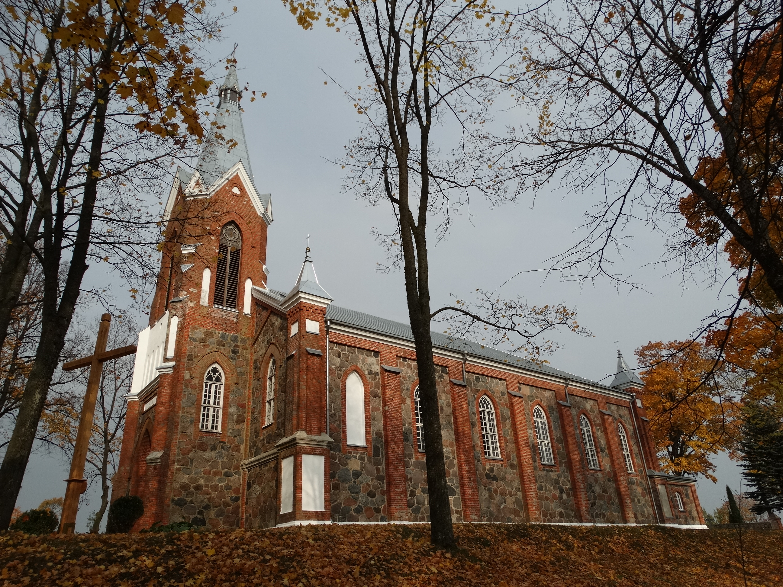 Roman Catholic Church, Gražiškiai, Vilkaviškis district, Lithuania